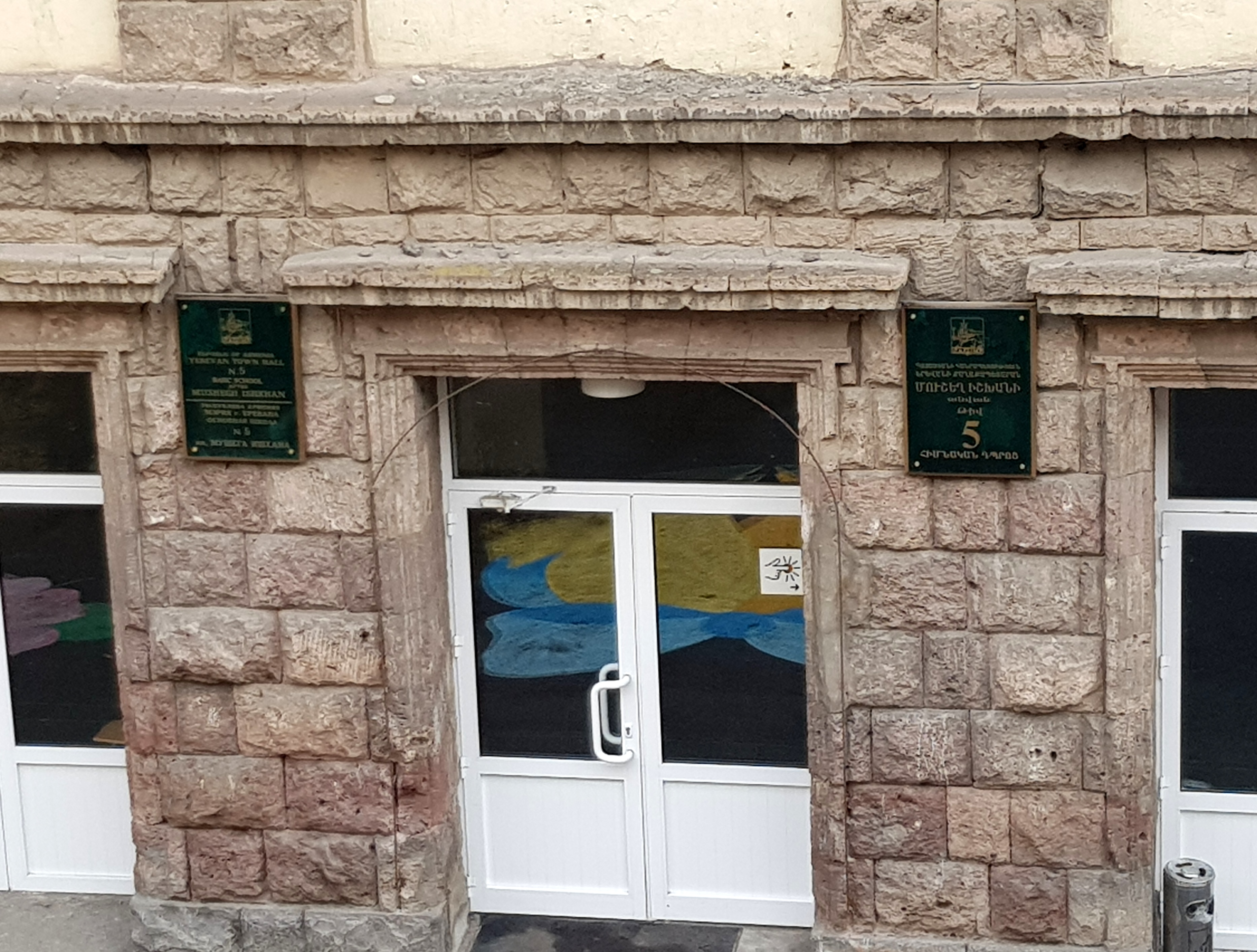 Mushegh Ishkhan School N 5 in Yerevan